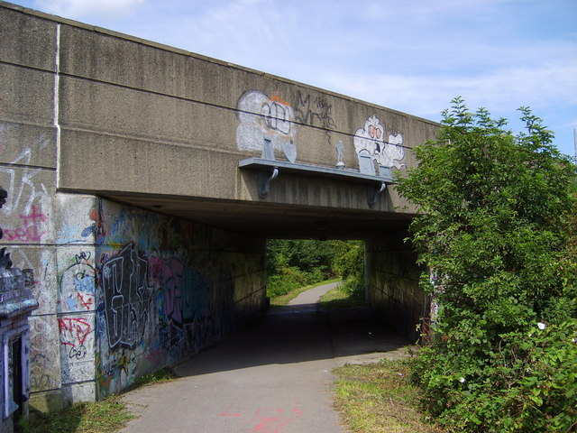 Layerthorpe Bridge This bridge allows traffic from Layerthorpe pass over Sustrans Route 66 cycle track.